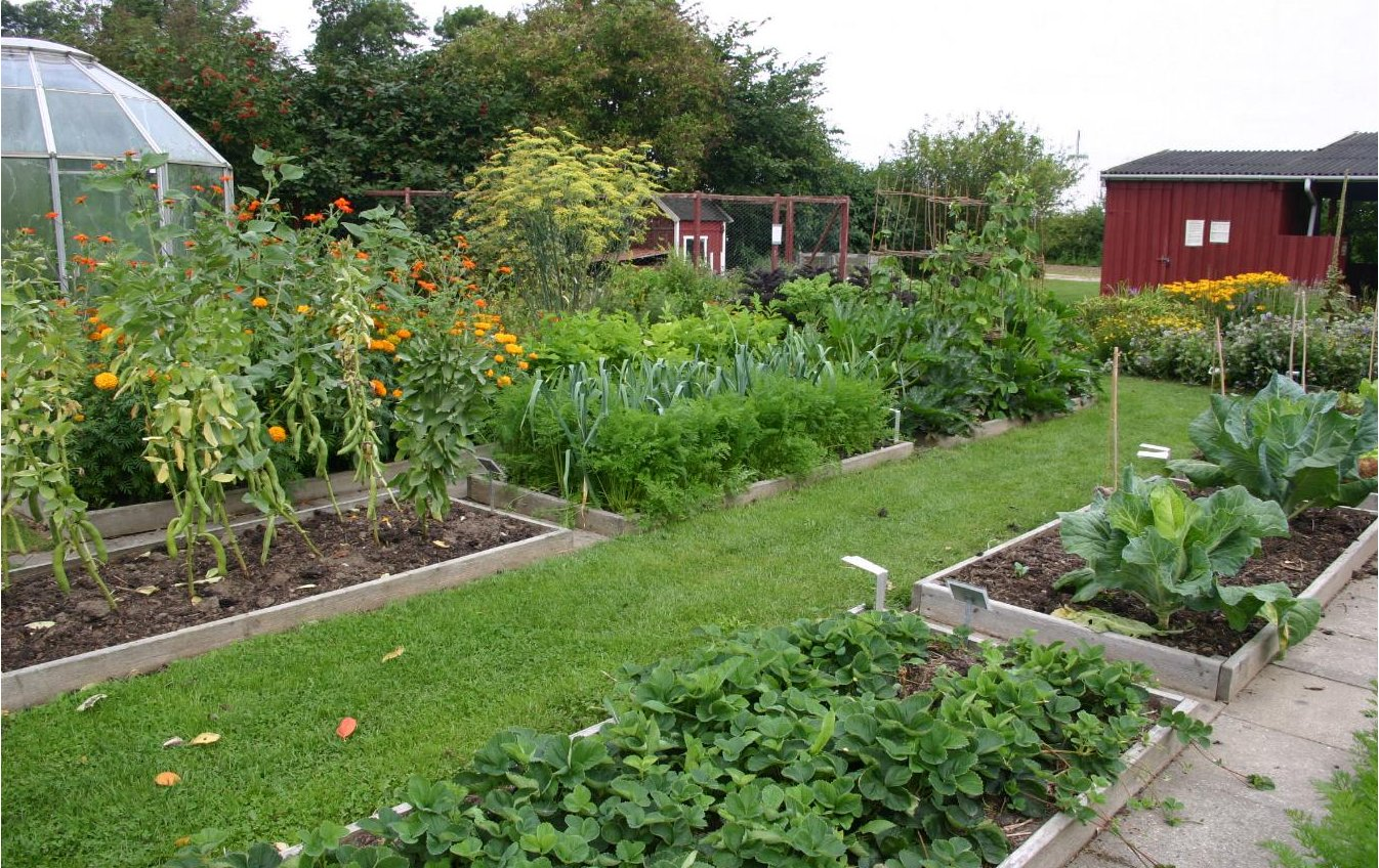 Crop rotation on a small scale at The Ecological Garden at Odder.